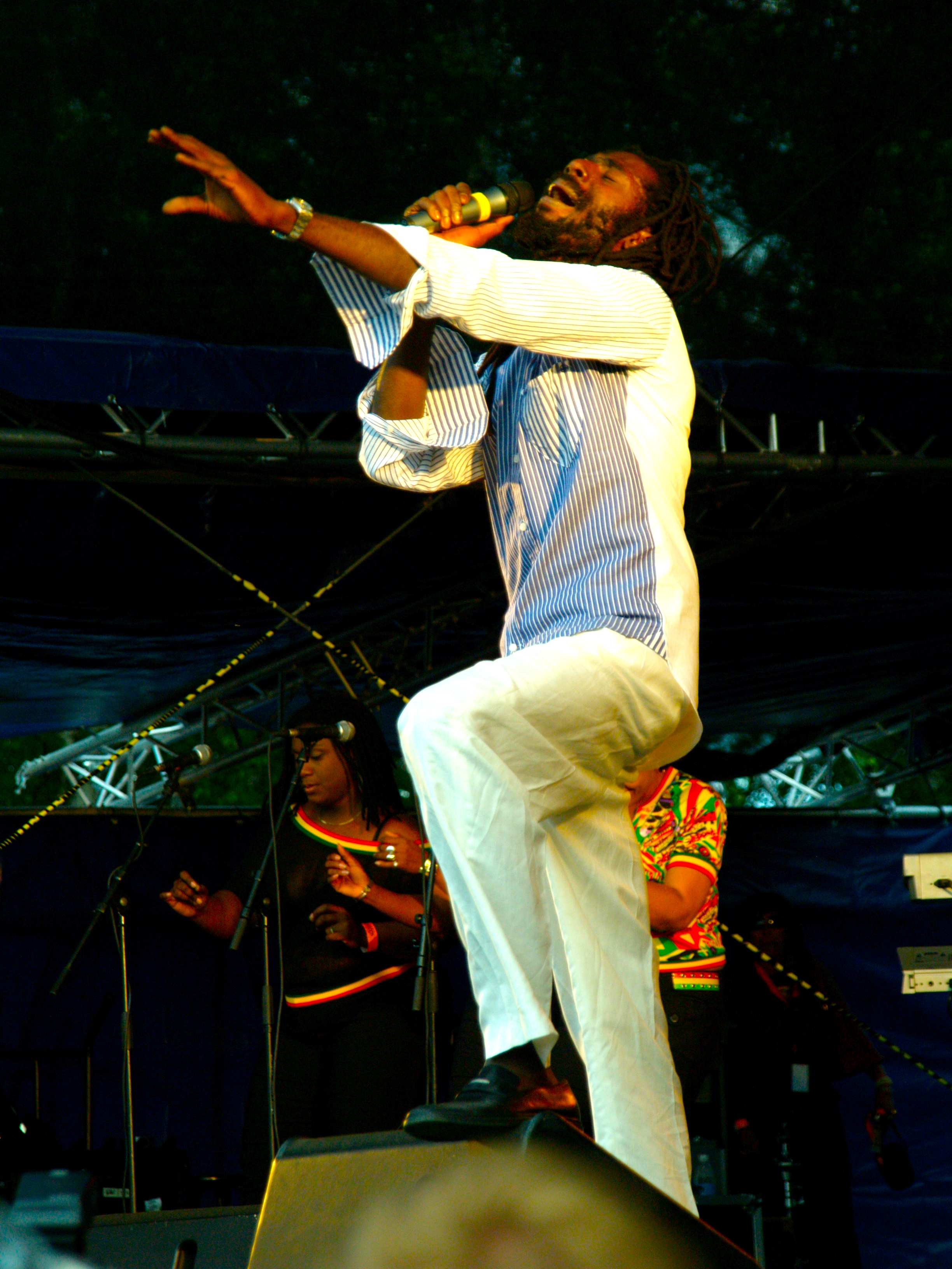 Buju Banton performing at the Ilosaarirock festival in Joensuu (Finland)